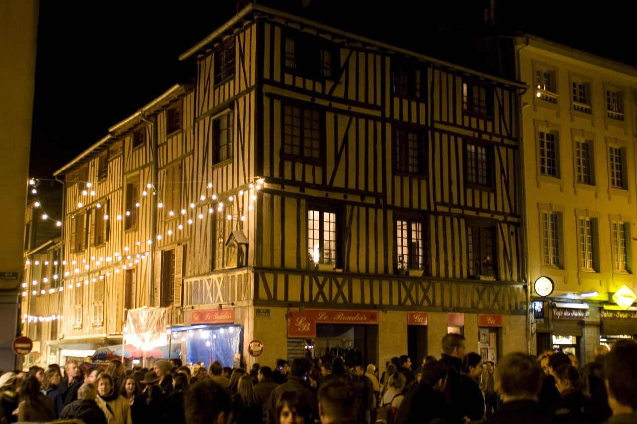 The festivity of the small bellies, traditional gastronomical demonstration being held in October in the district of Butchery in Limoges (France)